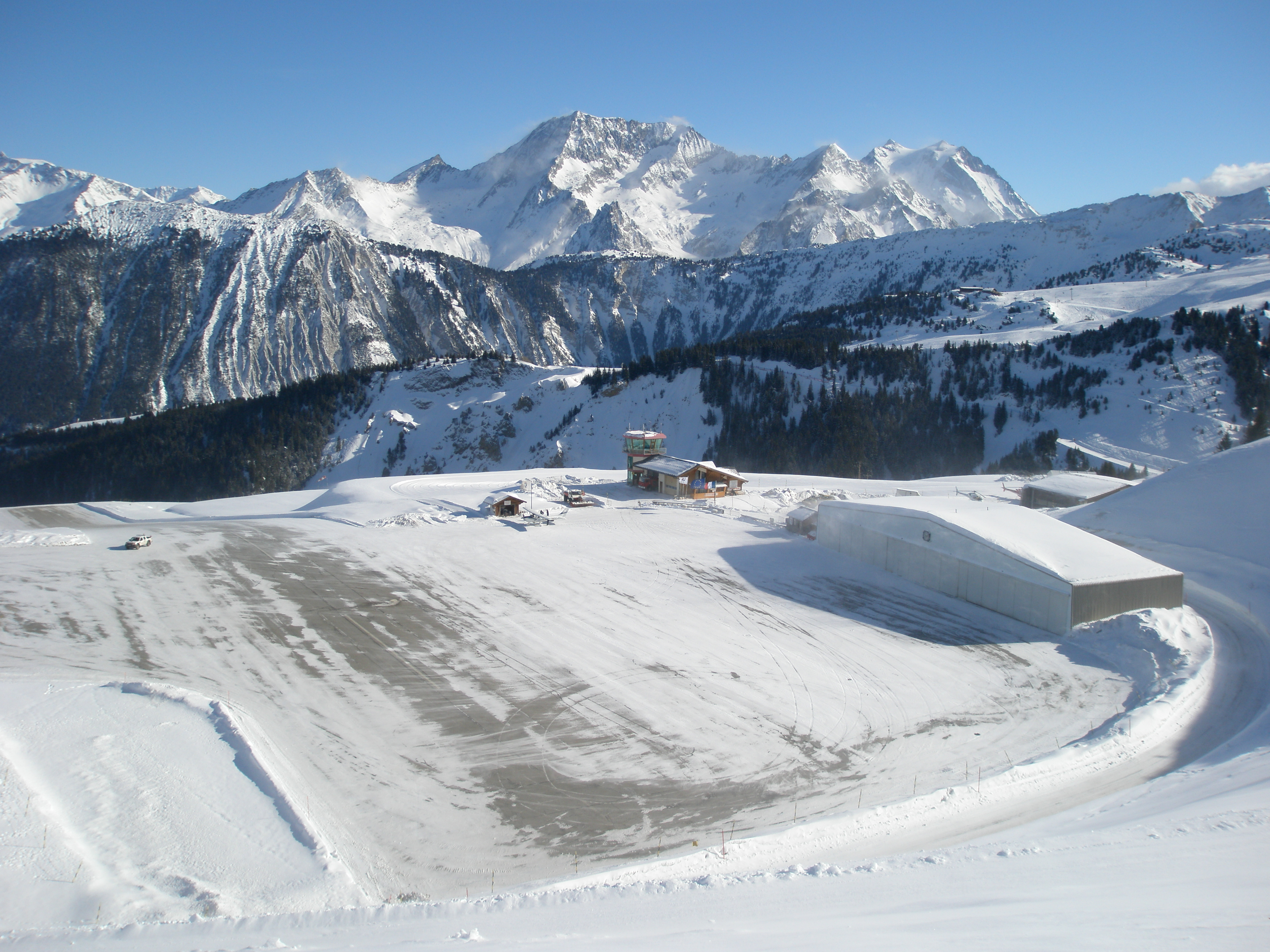 As you can see, the runway is tilted. Apparently a plane flipped over as it was landing the last time my dad was here!